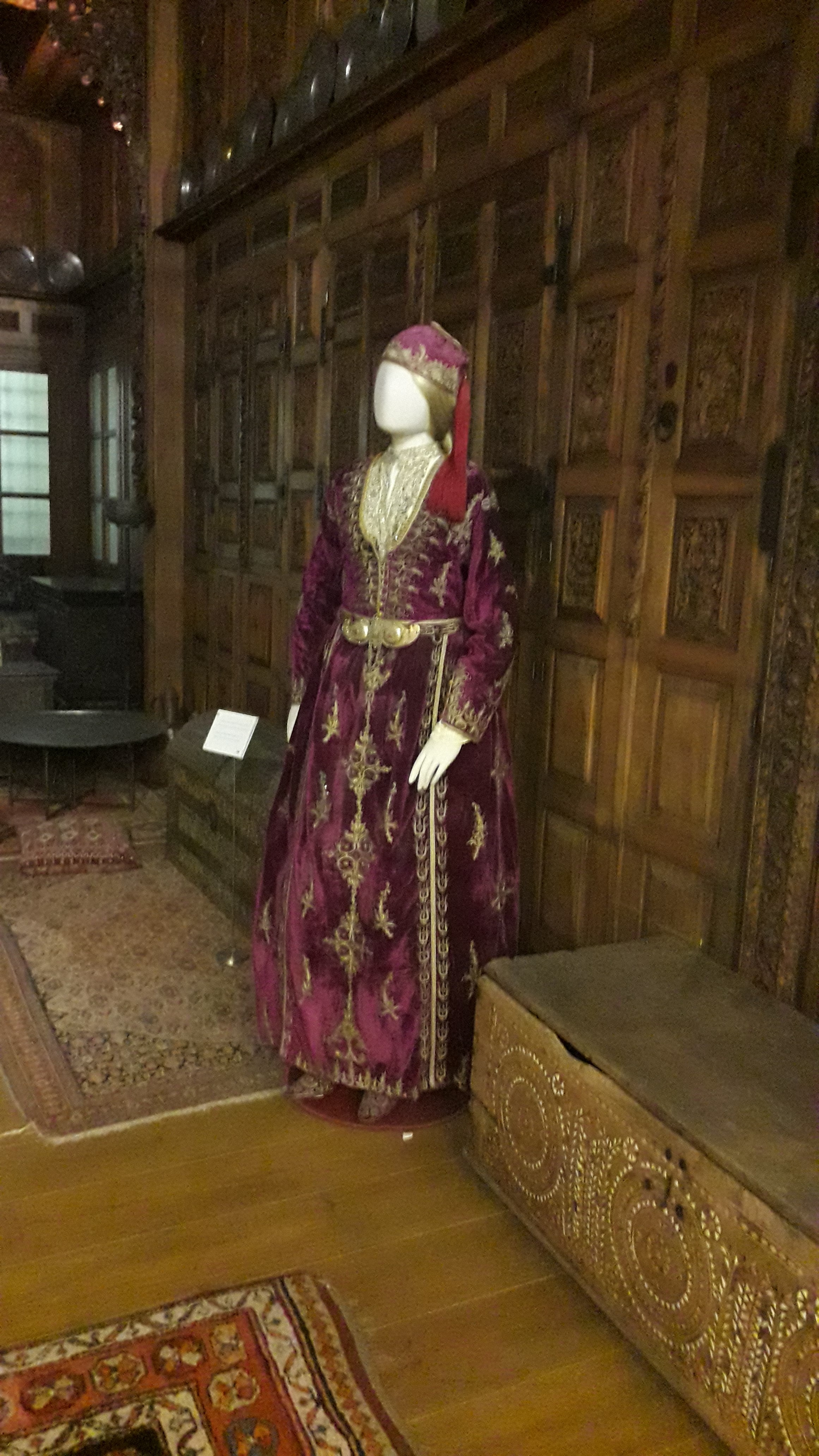 Costume from Kozhani